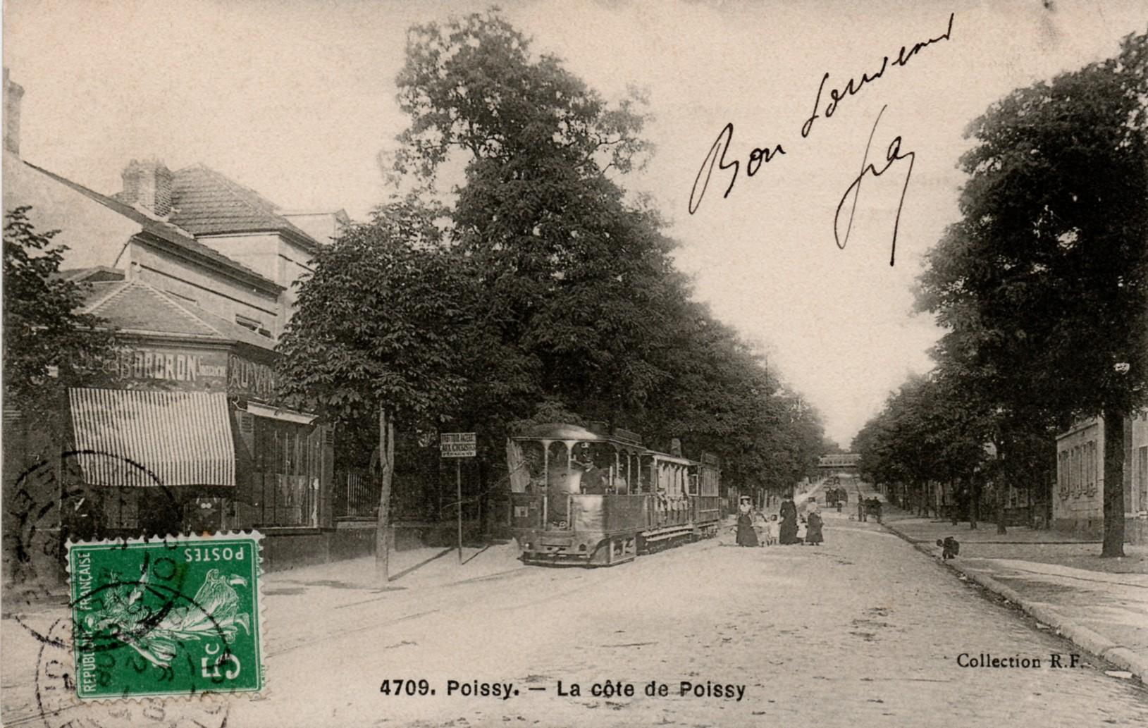 Tramway from Saint-Germain-en-Laye to Poissy (France) in the Poissy’s slope in 1908, Francq fireless tramway - vintage postcard